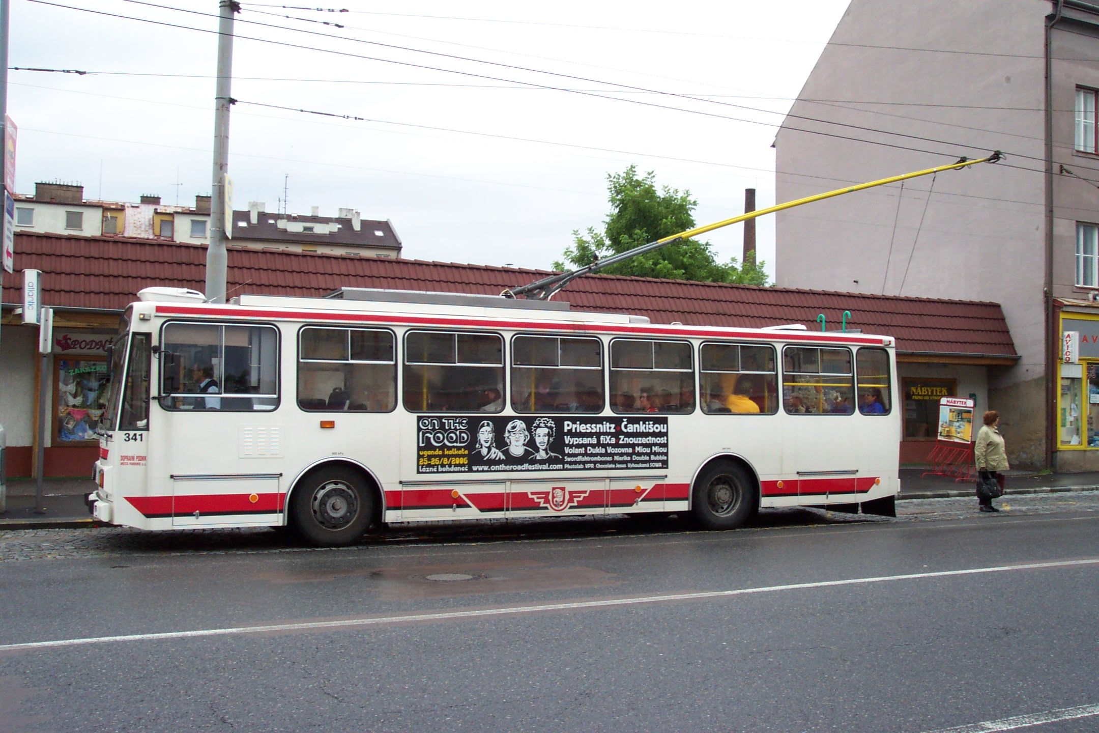 Trolleybus 14Tr in Pardubice, Czech Republic